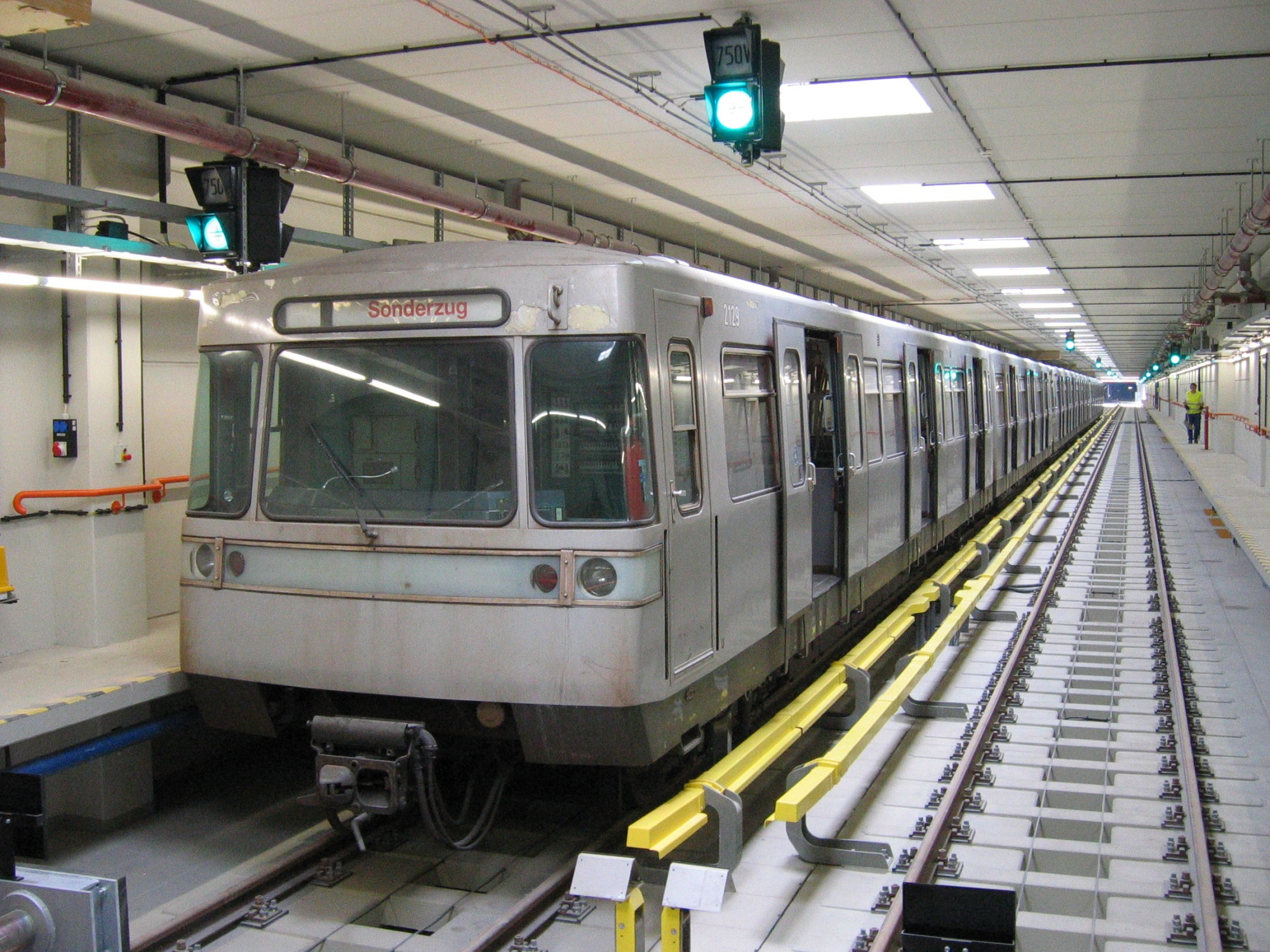 de: Triebwagen Typ U in der Fahrzeughalle in Leopoldau en: U-type standard metro car in Leopoldau car shed